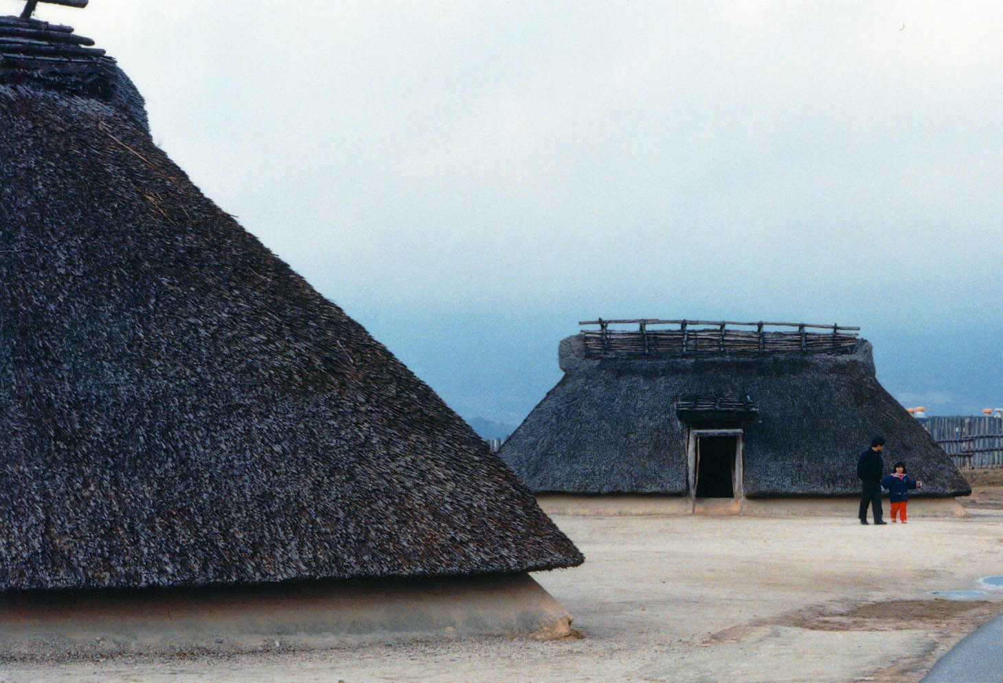 Reconstructed dwellings from a Yayoi-period site at Yoshinogari in Saga Prefecture, Japan. I took this photo and contribute my rights in the file to the public domain; individuals and organizations retain rights to images in it.